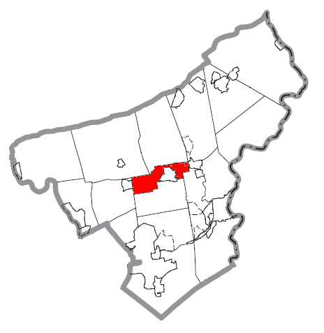 A map of Northampton County showing Upper Nazareth Township, Pennsylvania highlighted on the map.